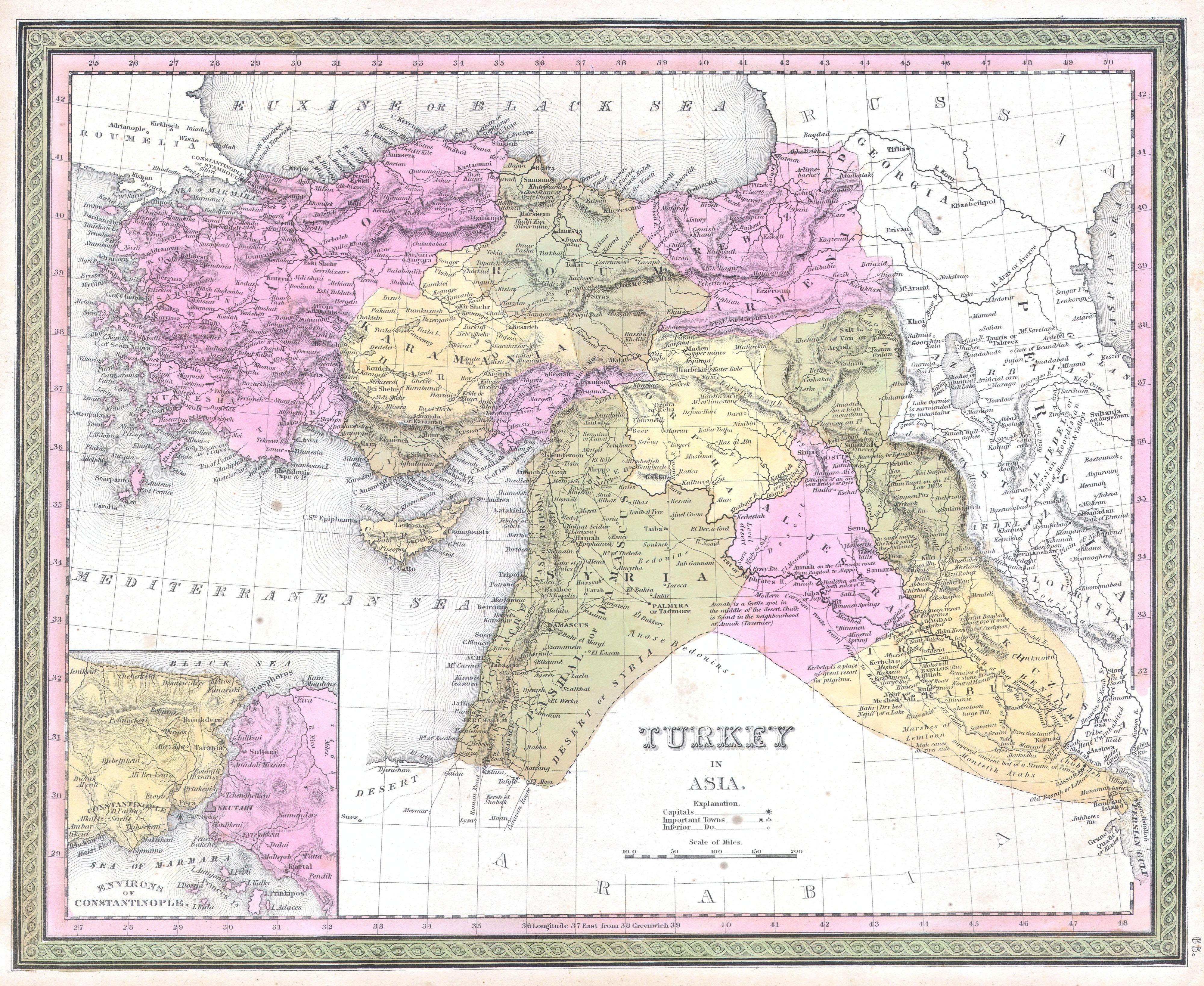 This beautiful hand colored map is a lithographic engraving of Turkey in Asia, dating to 1849. Beautiful map depicts most of modern day nations of Turkey, Iran, Iraq, Israel, Palestine, Jordan, Syria, Lebanon and Kuwait. There is a beautiful inset of the Environs of Constantinople or Istanbul. Produced by the legendary American map publisher S. A. Mitchell Sr. in conjunction with the Cowperthwait firm of Philadelphia, PA.